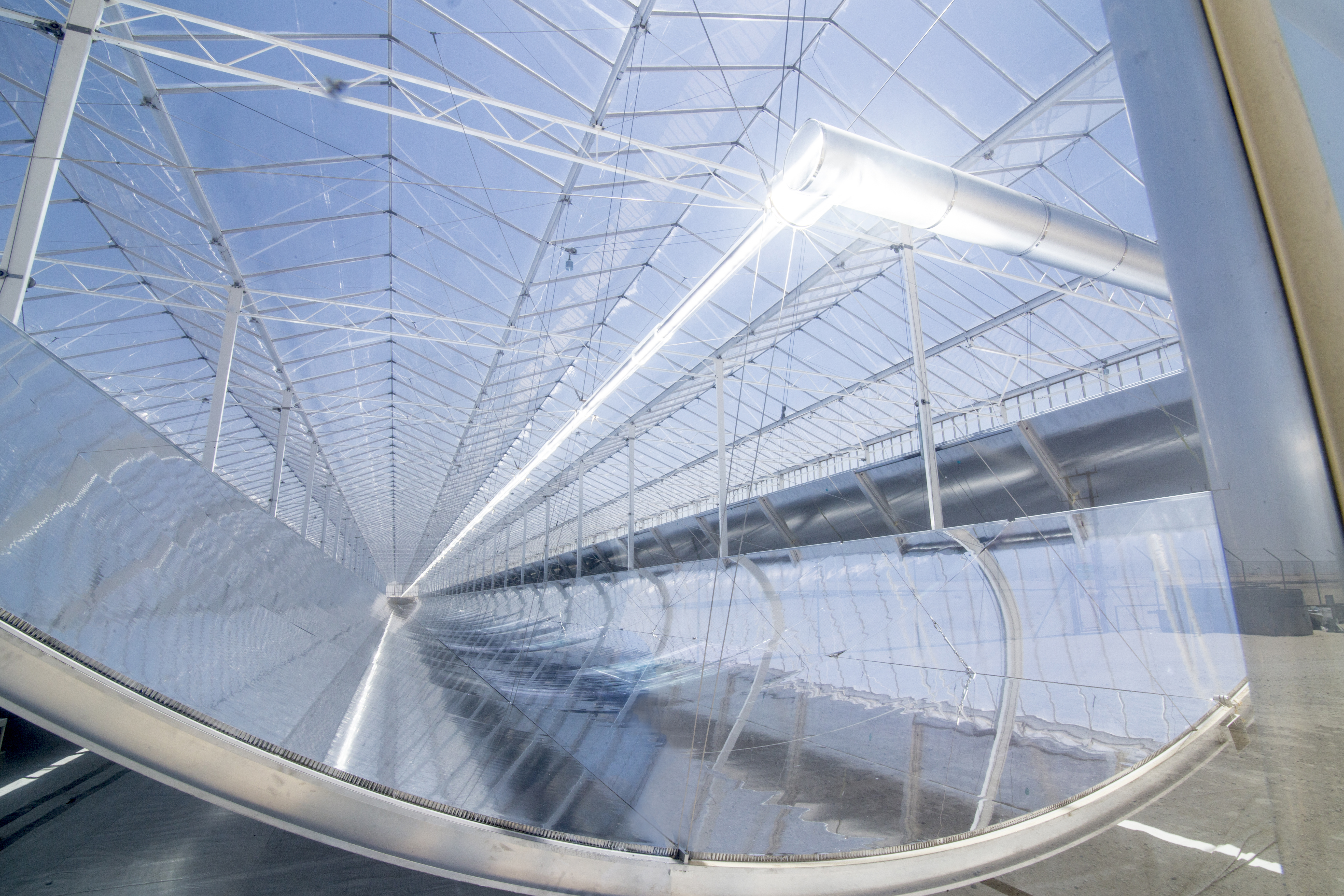 Close-up of Glasspoint's parabolic trough